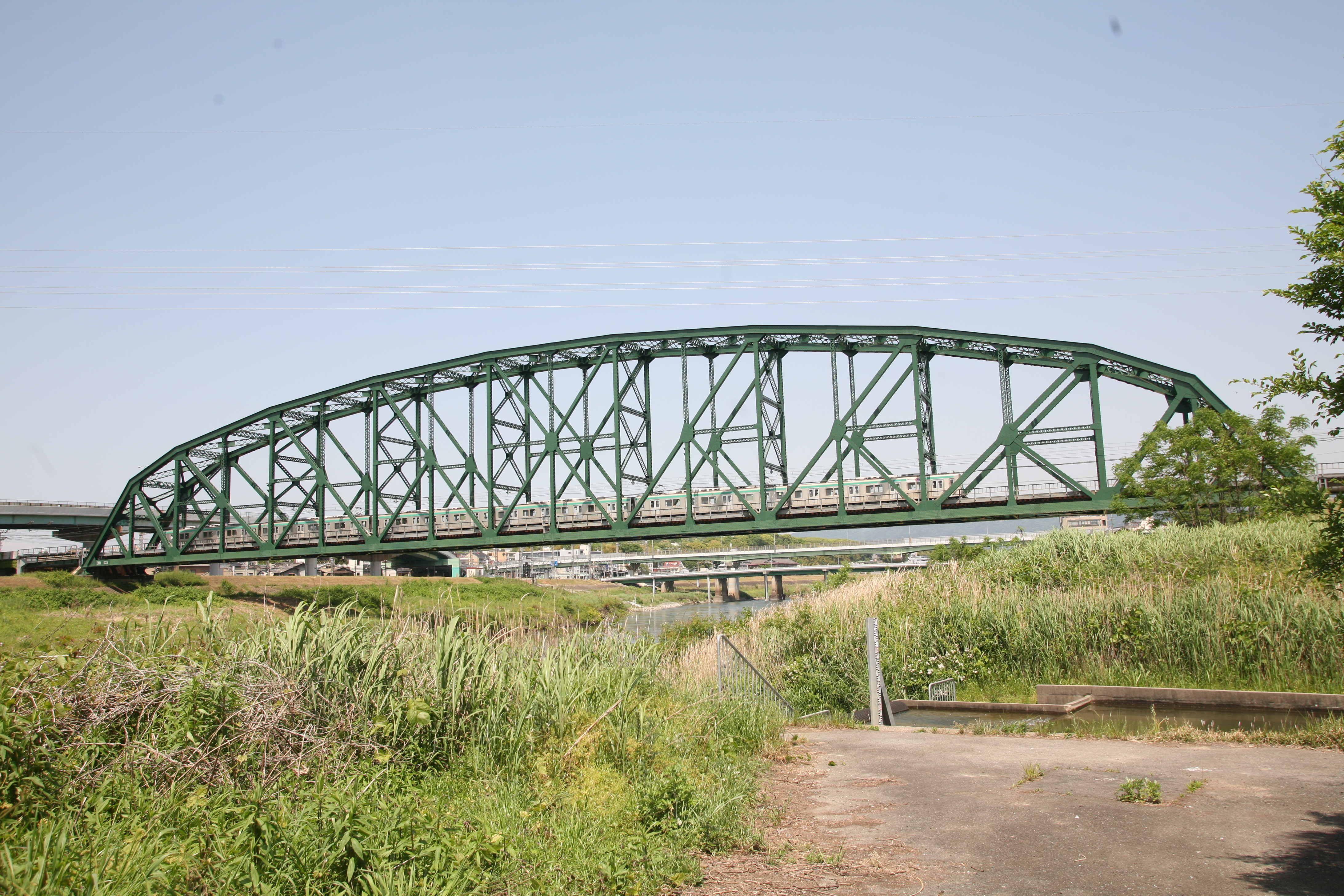 Yodogawa Bridge of Kyoto Line,Kinki Nihon Ry,Kyoto pref.,Japan. The largest Pennsylvania (Petit) truss in Japan.Manufactured by Kawasaki Dockyard Co., Ltd. in 1928.